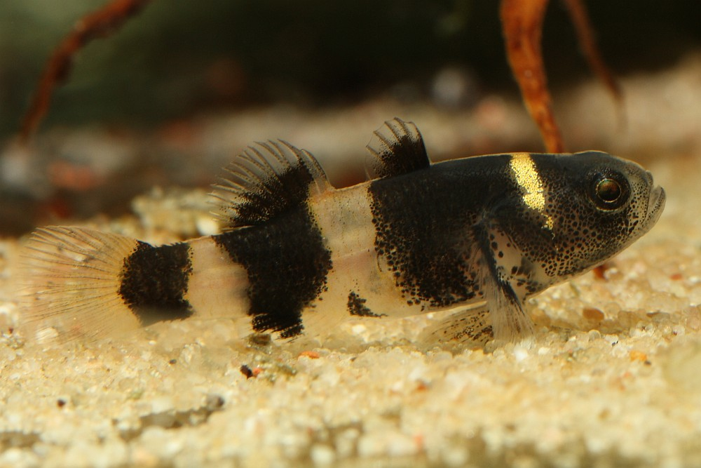 young Bumblebee Goby (Brachygobius doriae) - in aquarium.